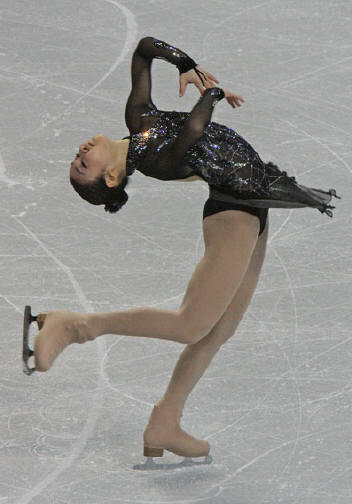 Kim Yu-Na(KOR) performs a layback spin during her short program at the 2009 Four Continents Championships.